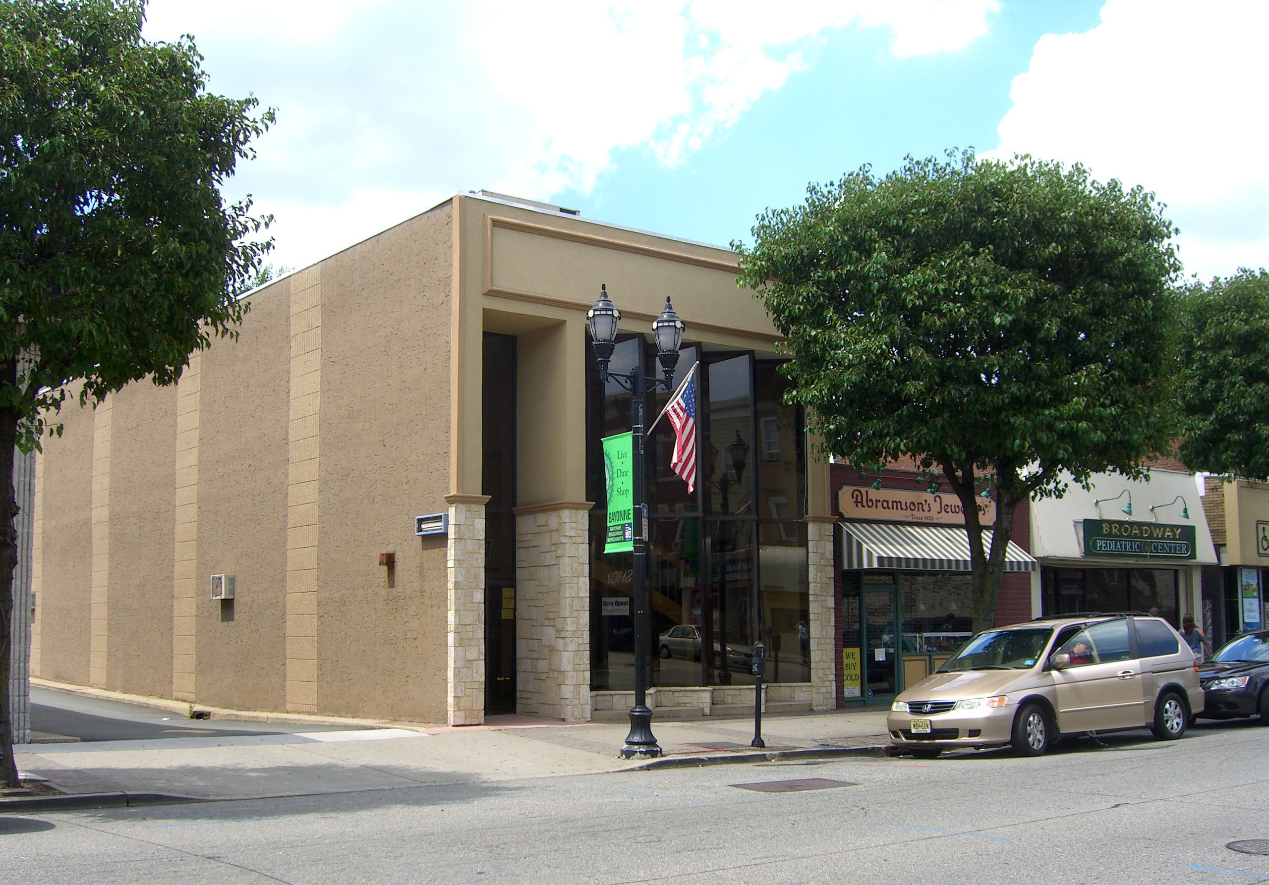 Building at 447 Broadway in Bayonne, New Jersey, as seen on July 17, 2016. The building has housed the offices of The Hudson Reporter family of newspapers since June 2016. This photo was created by Luigi Novi. It is not in the public domain, and use of this file outside of the licensing terms is a copyright violation.